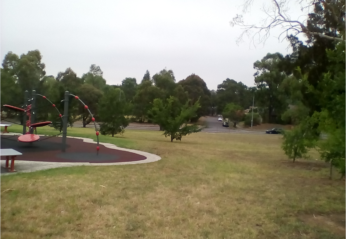 Parks in Kings Langley, New South Wales